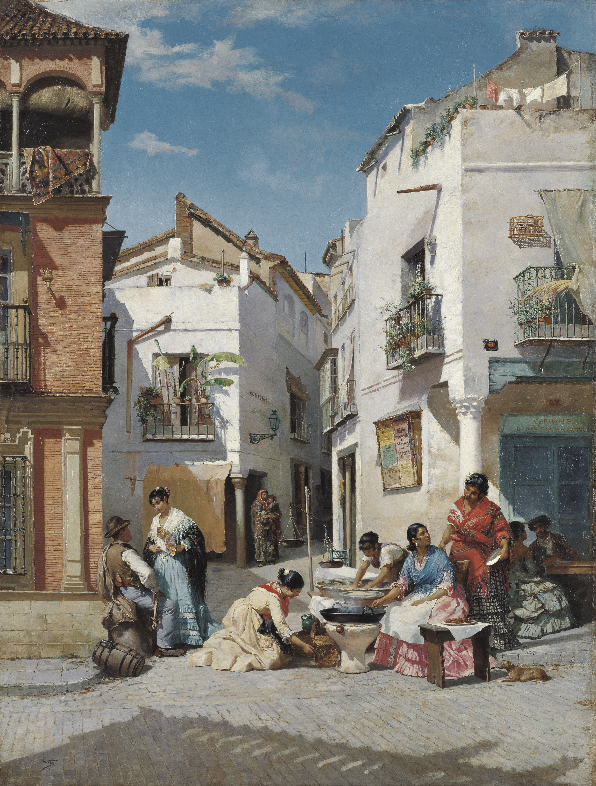 Ring-Shaped Pastry Sellers Oil on canvas, 107 x 81 cm, Inv. CTB.1987.29 Carmen Thyssen Museum Native nameMuseo Carmen Thyssen MálagaLocationMálaga, (Spain)Coordinates36° 43′ 17″ N, 4° 25′ 22″ W Established2011Website control VIAF: 230371067 LCCN: no2012034269 GND: 16335044-9 SUDOC: 163469776 BNF: 16968889h WorldCat